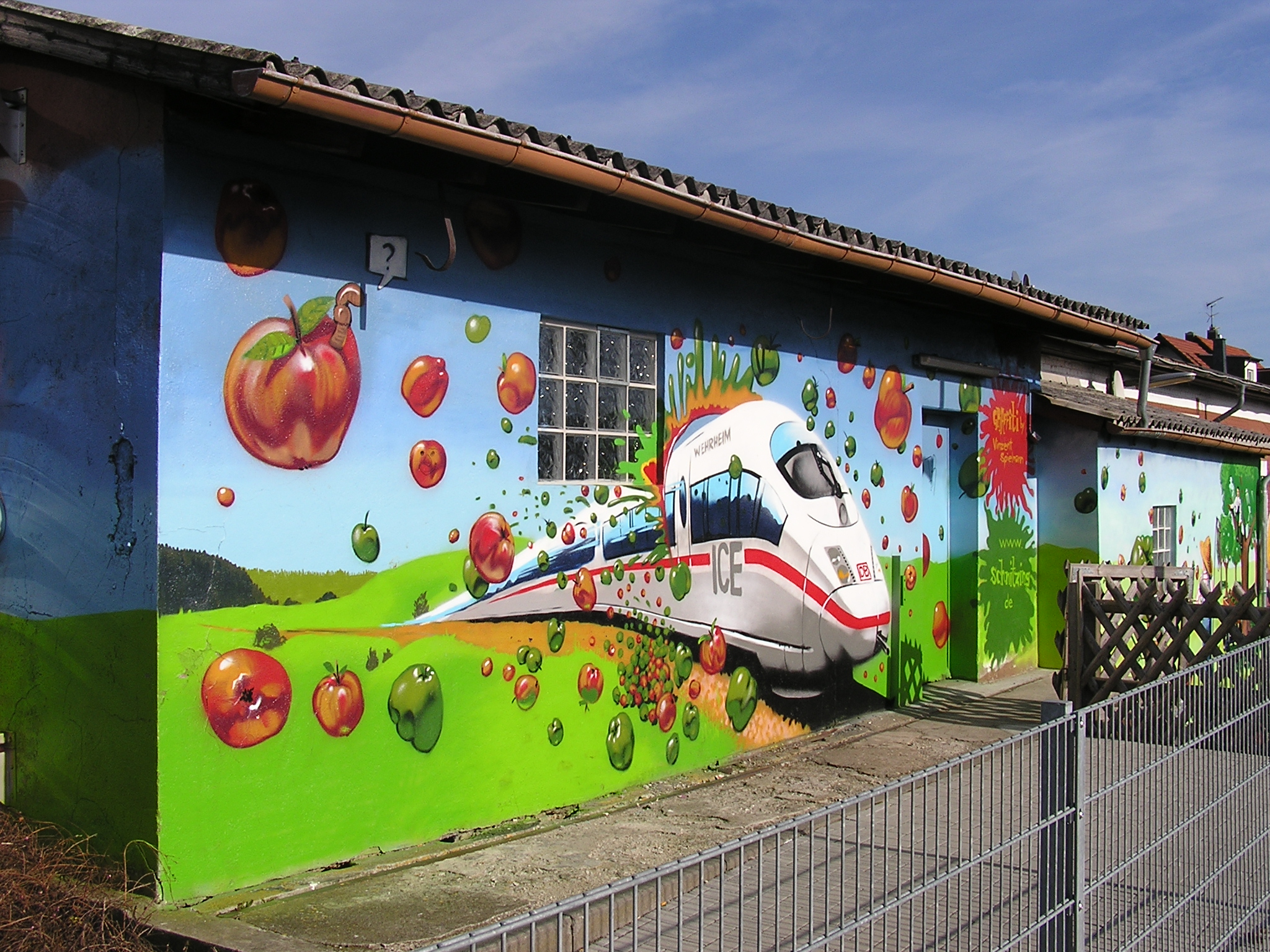 Station building with freight shed of Wehrheim. The painting showing an ICE 3 rushing through a cluster of apples was drawn in the course of the celebration (autumn 2007) where one ICE-TD was named after the commune.